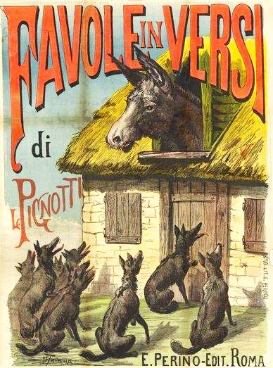 Coverpage of an edition of Lorenzo Pignotti's Favole